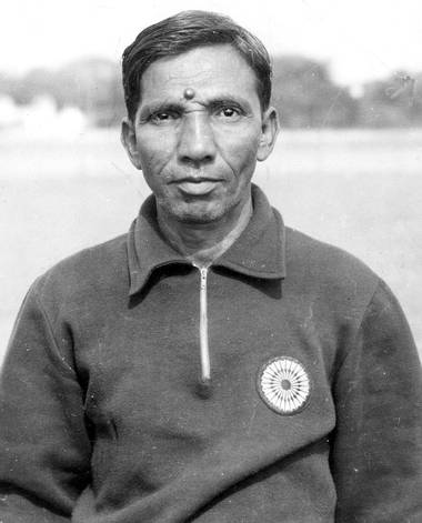 Syed Abdul Rahim, a brilliant coach associated with India National Team in the 50s and 60s and give India many success thus making India Football's golden era. He is the most successful Indian Coach.